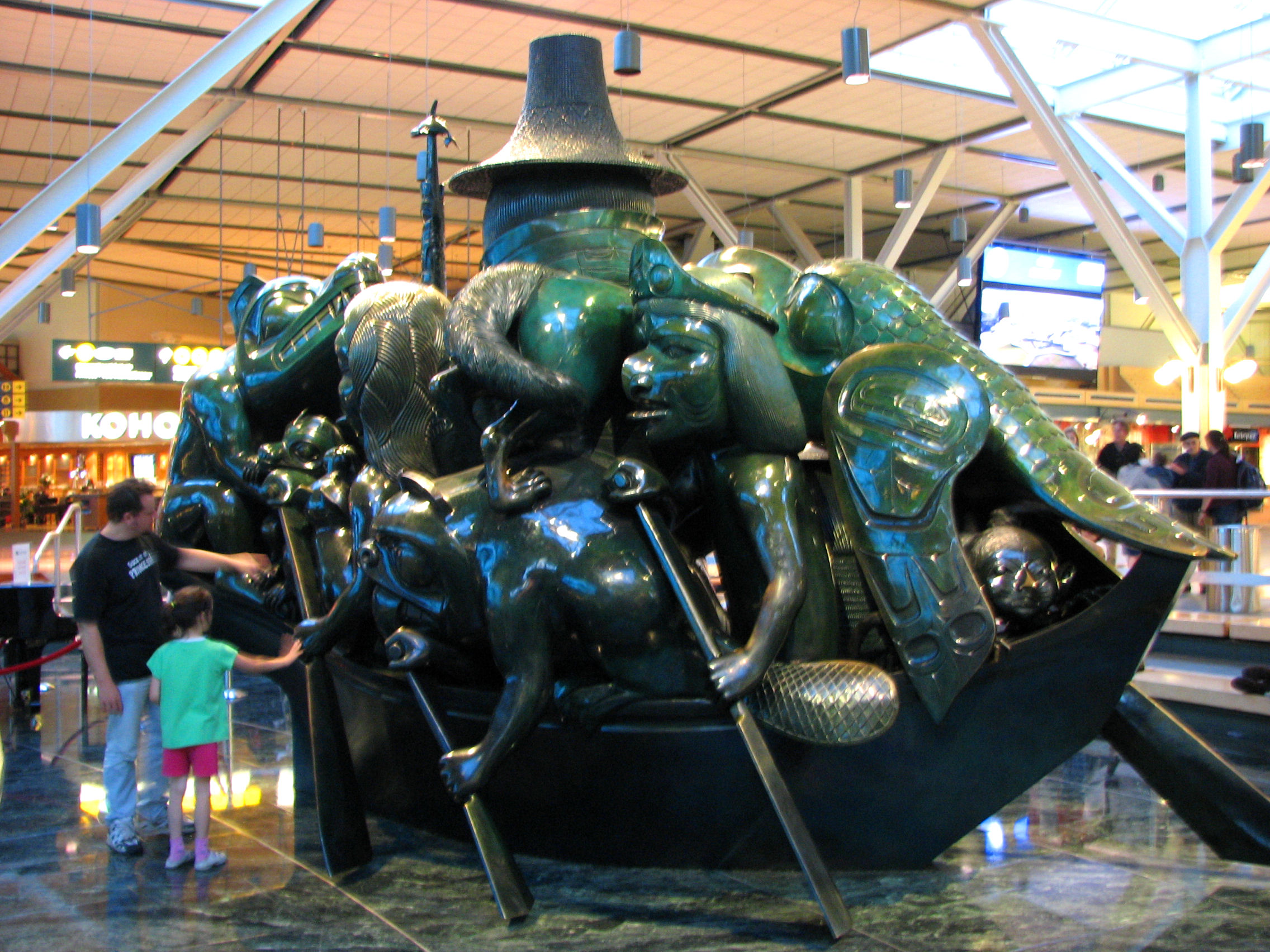 "The Spirit of Haida Gwaii, The Jade Canoe", bronze sculpture by Bill Reid, in Vancouver Airport, Richmond, British Columbia, Canada